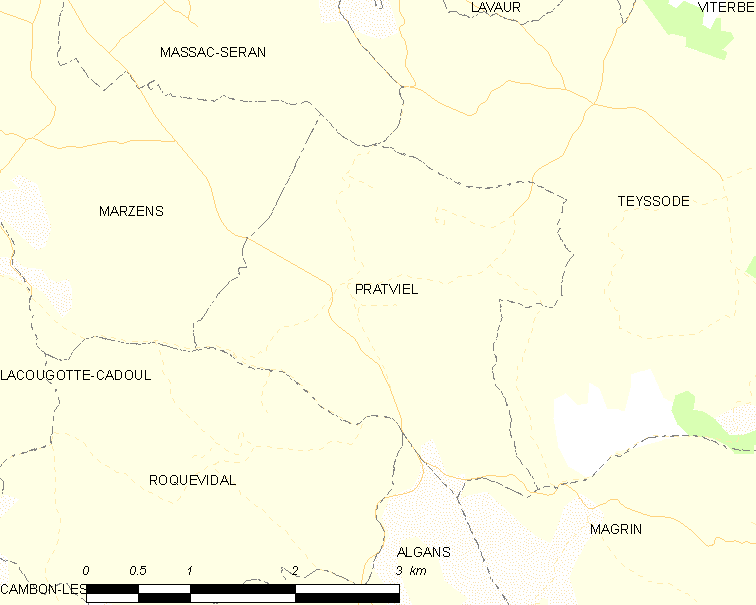 Map of French municipality Pratviel